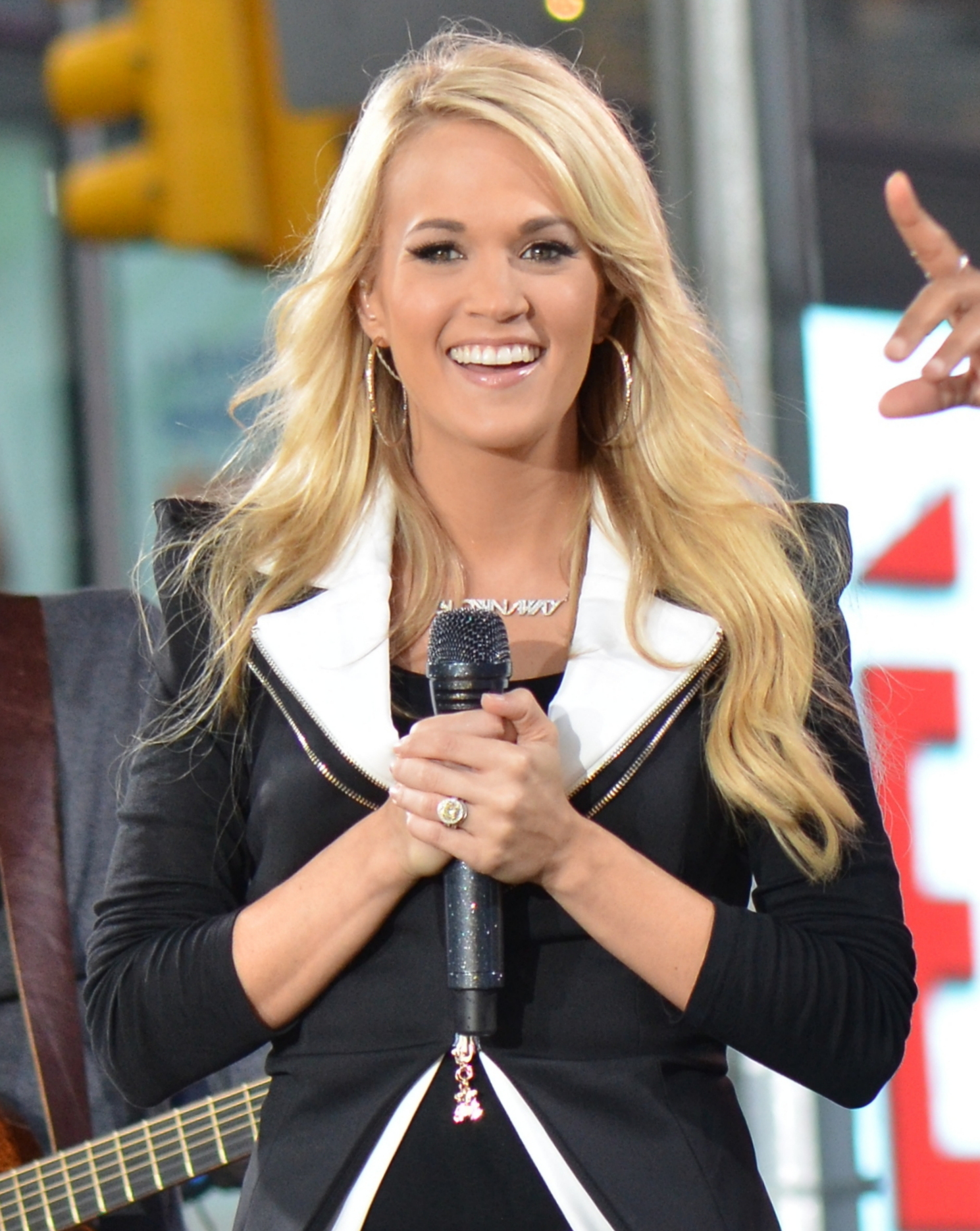 Carrie Underwood Live in Times Square in May 2012.